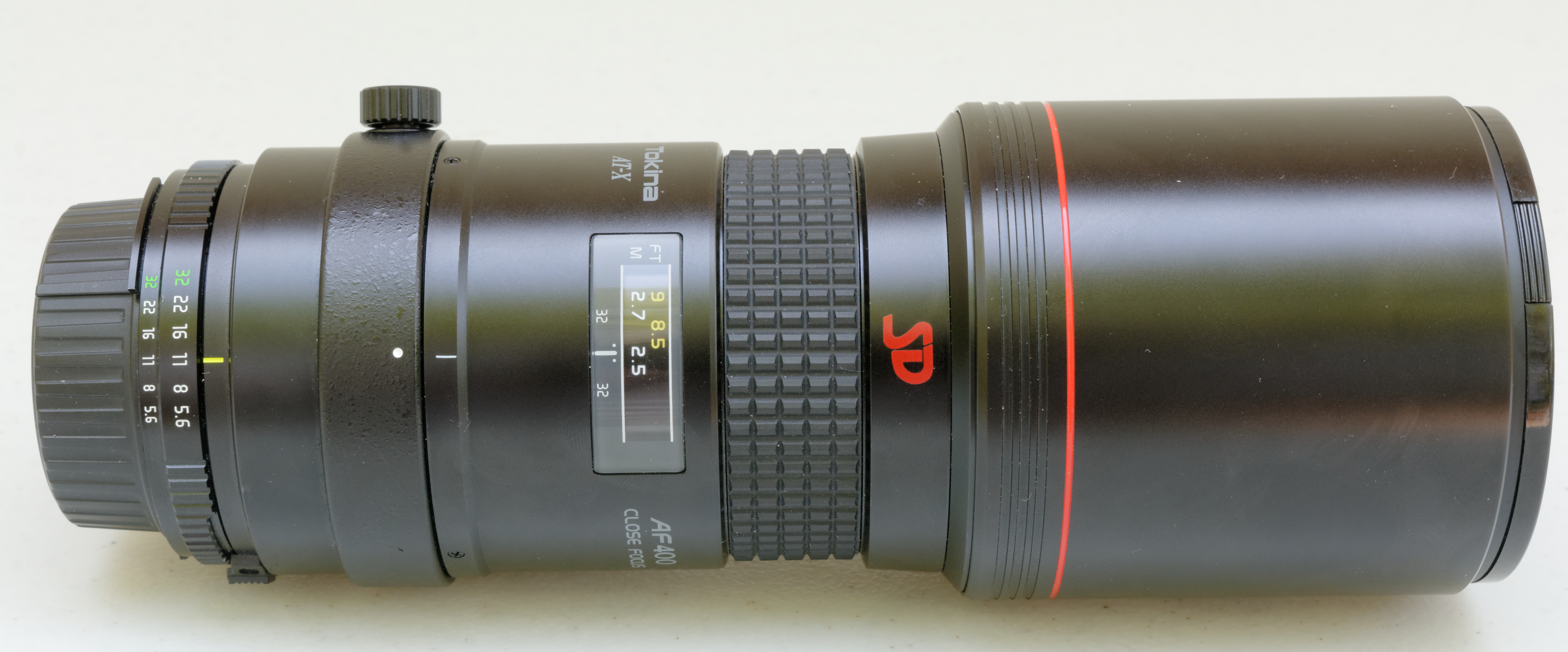 Tokina 400mm telephoto lens